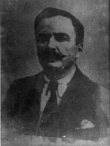 Dimitrios Deligiannis